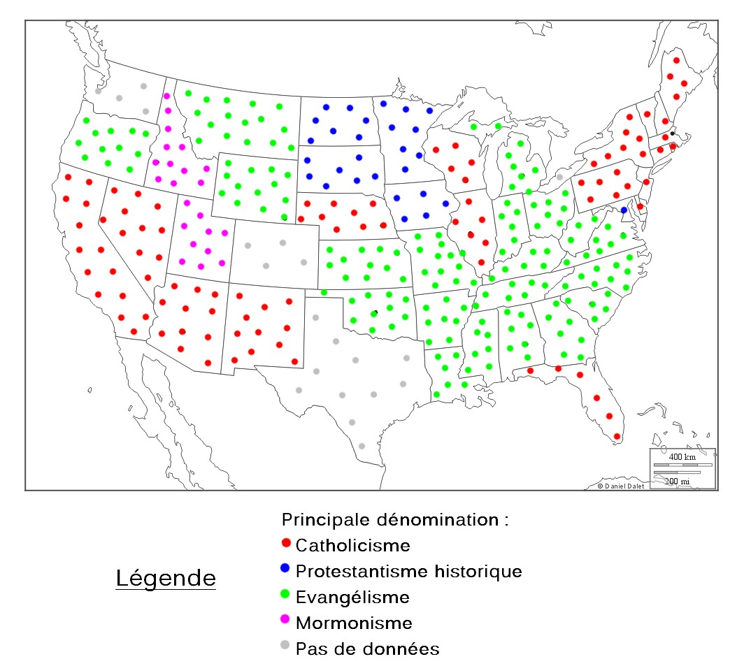 Religious Denominations in USA.